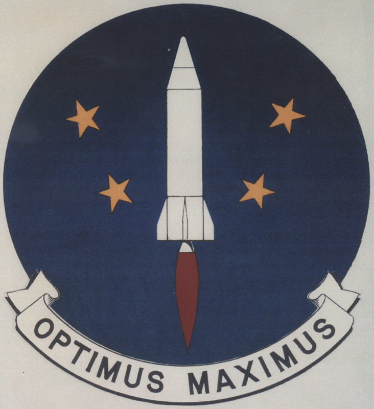 864th Strategic Missile Squadron emblem